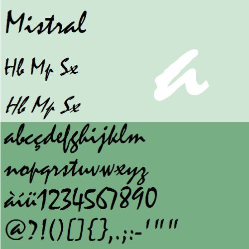 Mistral Typeface